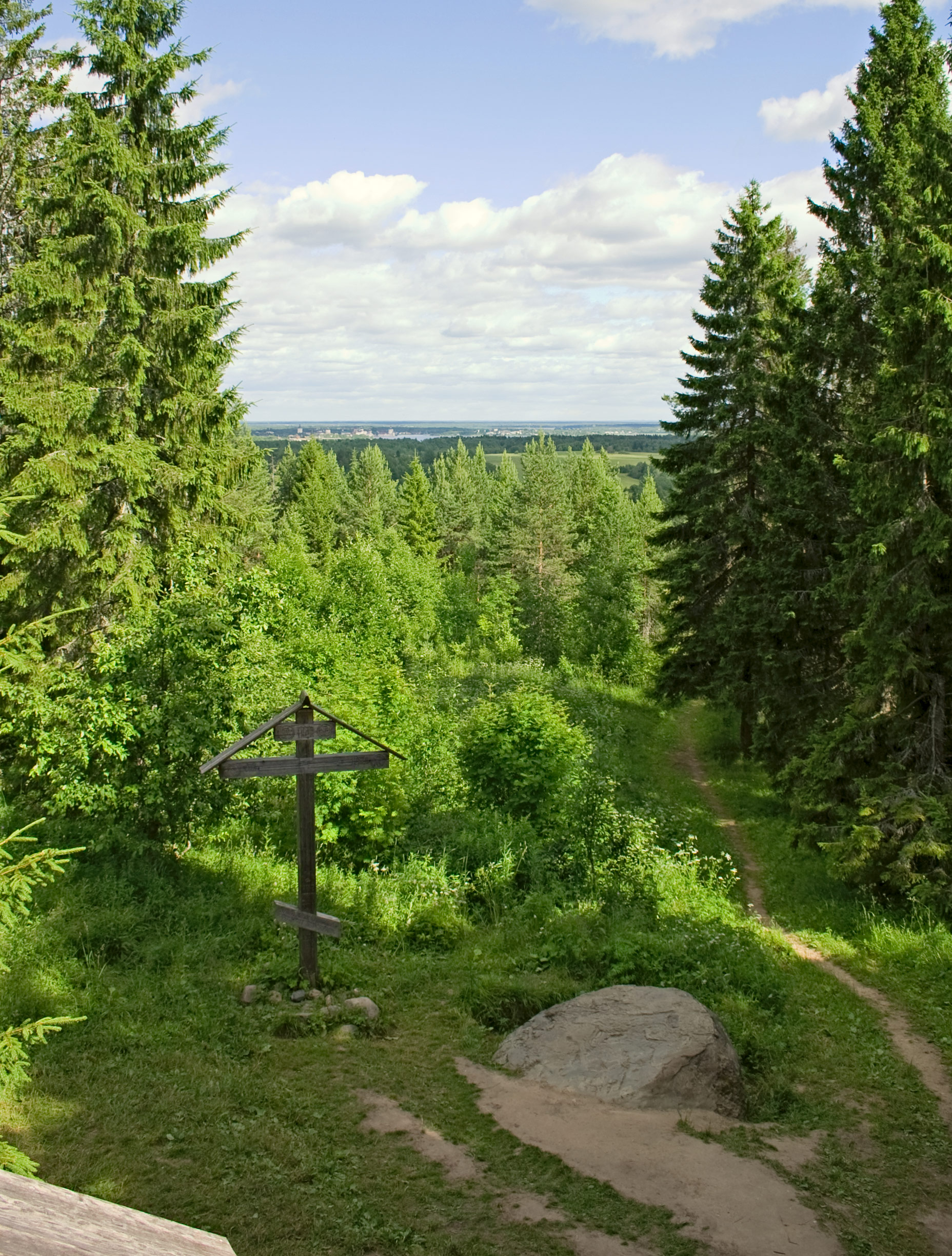 Maura hill: "sledovoy kamen" (footstep stone), "poklonniy krest" (bowing cross). Tall trees are Picea abies. On background scene - Kirillov.